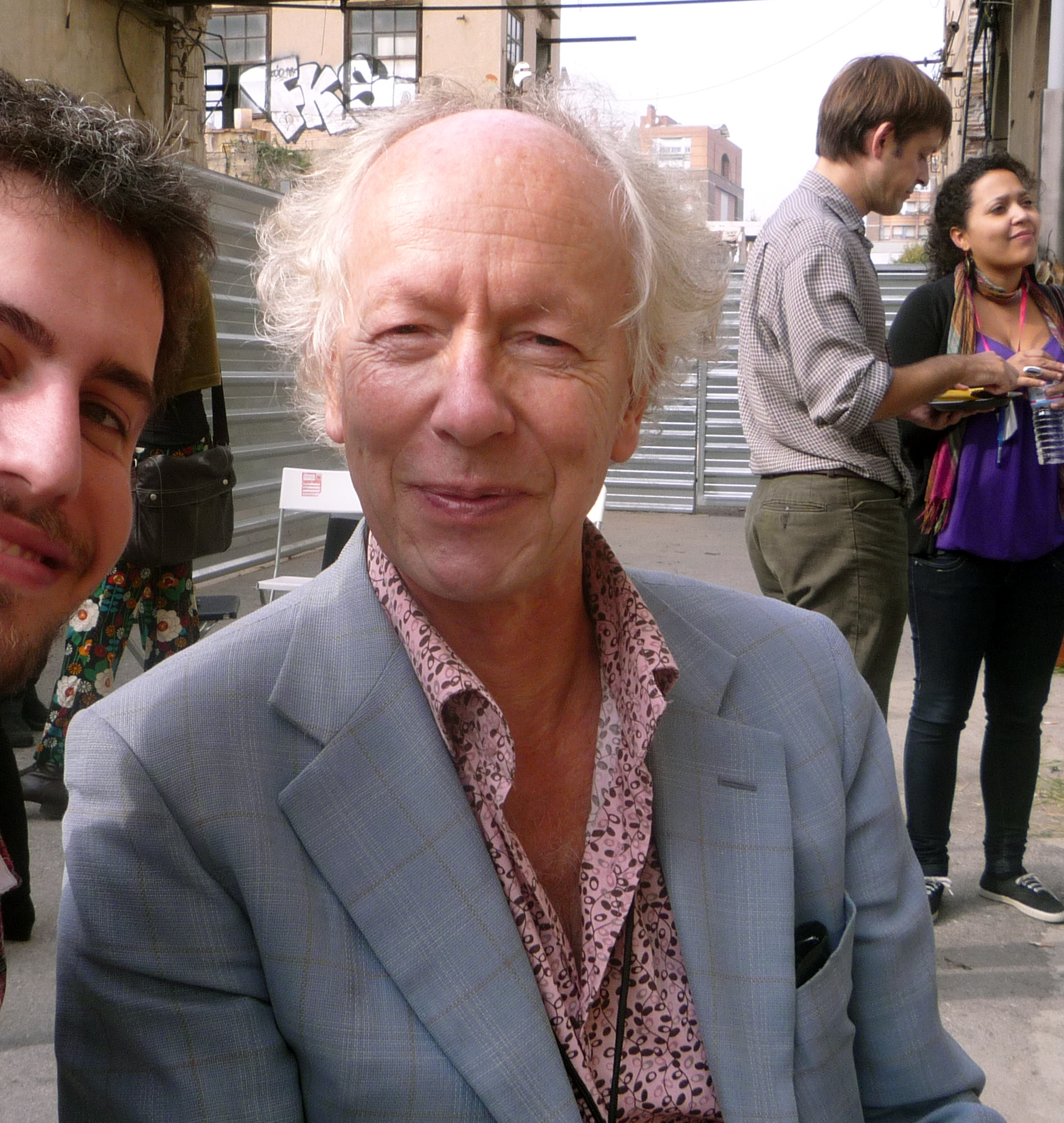 Franco Iacomella Joost Smiers